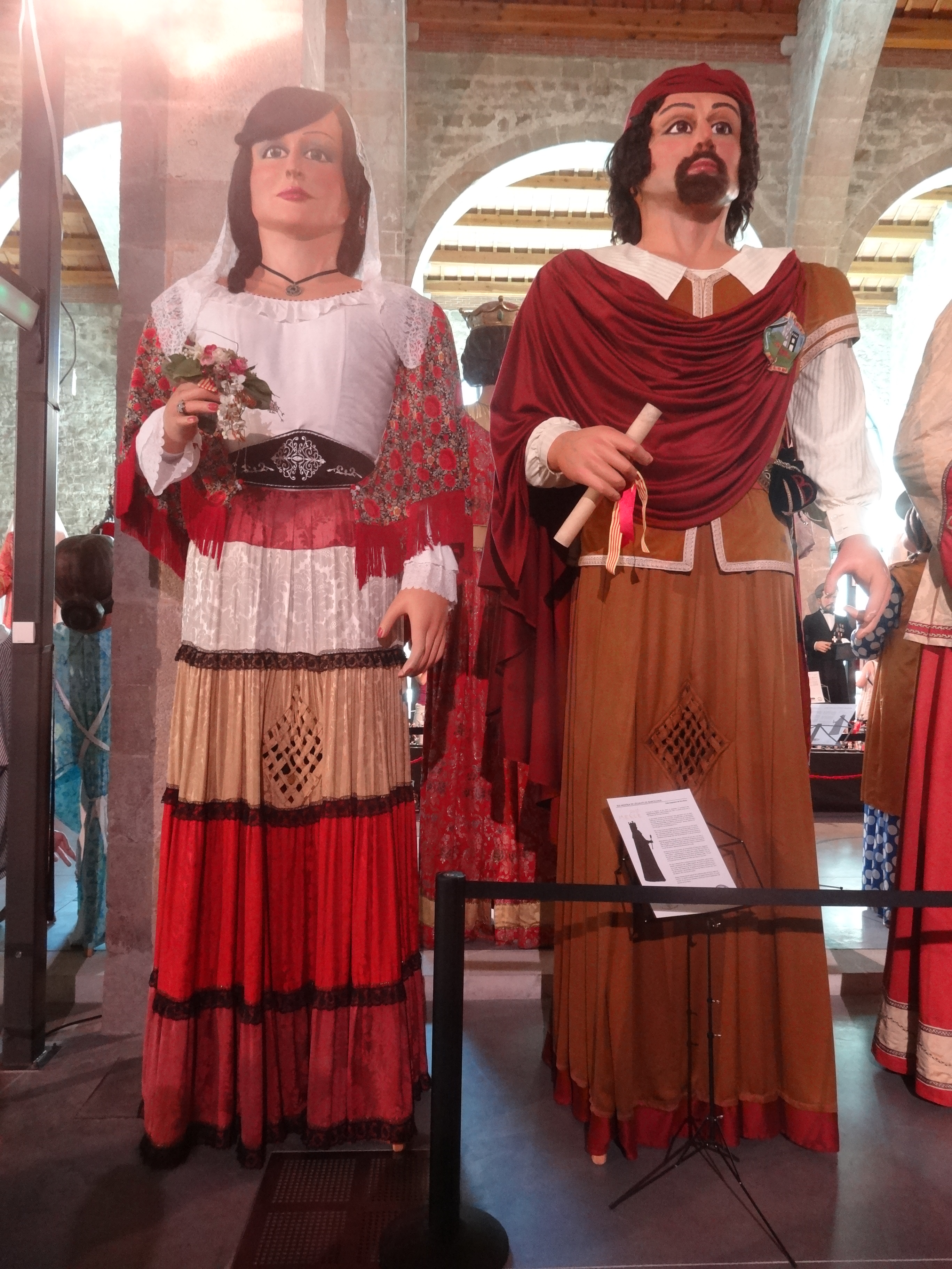 Exhibition of Giants at the Museu Marítim, Barcelona, 2013.